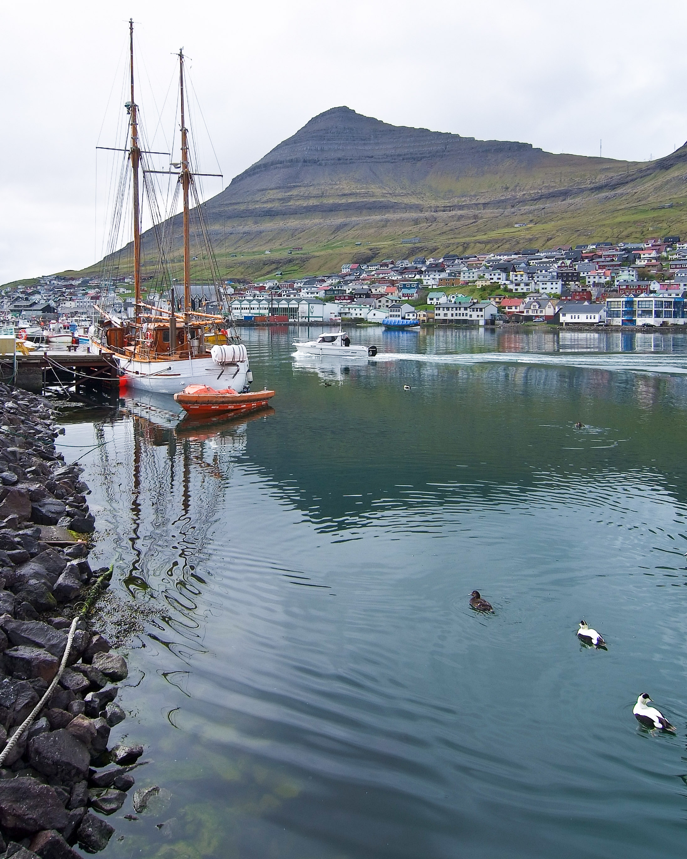 Common eiders (Somateria mollissima) at Klaksvík, Faroe Islands